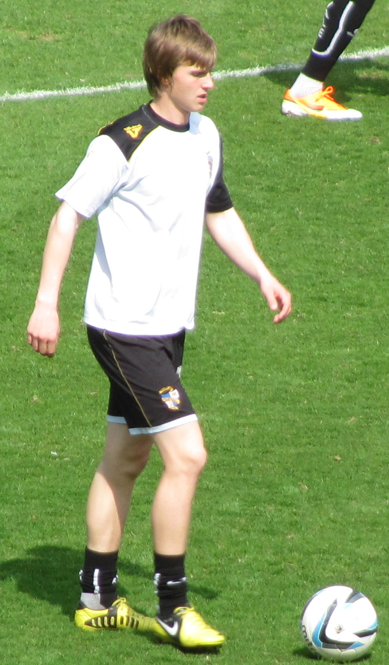 Pictured during the 2-2 draw between Port Vale and Northampton Town on 20 April 2013.